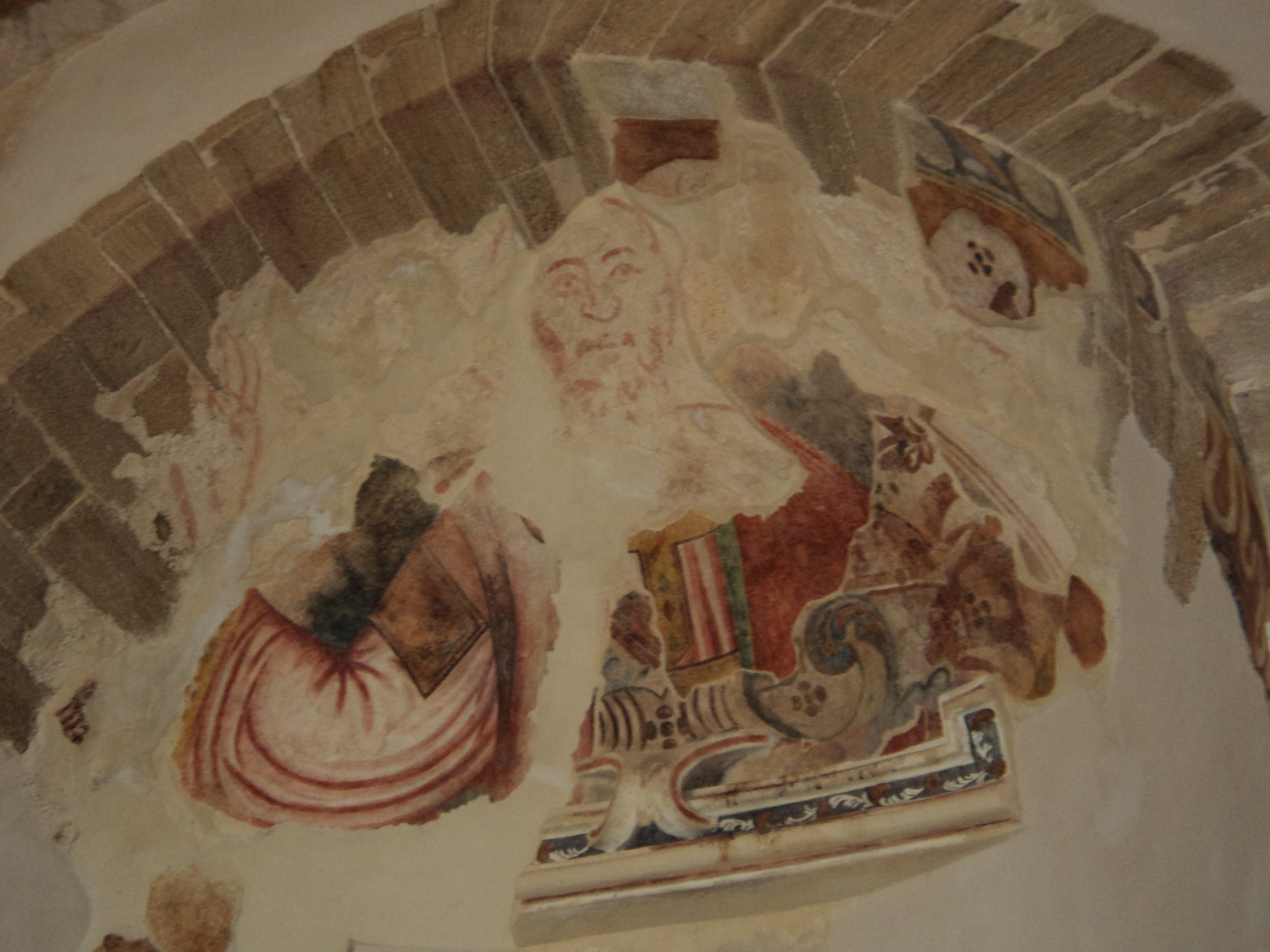 Christ Pantocrator (Church of Santa Maria della Raccomandata of Sciacca)